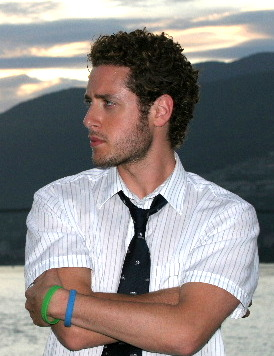 Paulo Costanzo